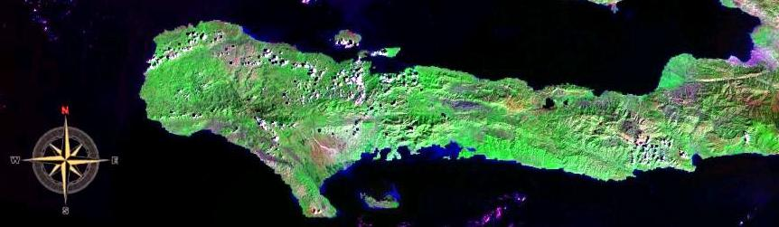 NASA World Wind picture of Tiburon Peninsula, Haiti